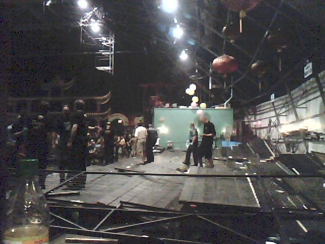 The north bleacher section collapsed during the final bow of Circus Juventas's final performance of Yulong: The Jade Dragon. I took this photo 5-10 minutes after the collapse, after those on the bleachers has been escorted off them. No major injuries were reported, and the circus bought new bleachers, which proved successful during the most recent show, Sawdust.